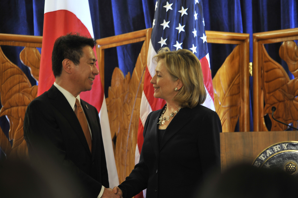 U.S. Secretary of State Hillary Rodham Clinton, right, and Japanese Foreign Minister Seiji Maehara shake hands after a joint press conference of American and Japanese journalists held at the Kahala Resort and Hotel, Honolulu, Hawaii, Oct. 27, 2010. Clinton and Maehara discussed the Japanese-American alliance, the role of U.S. forces in Japan and the overall Asia-Pacific strategy.